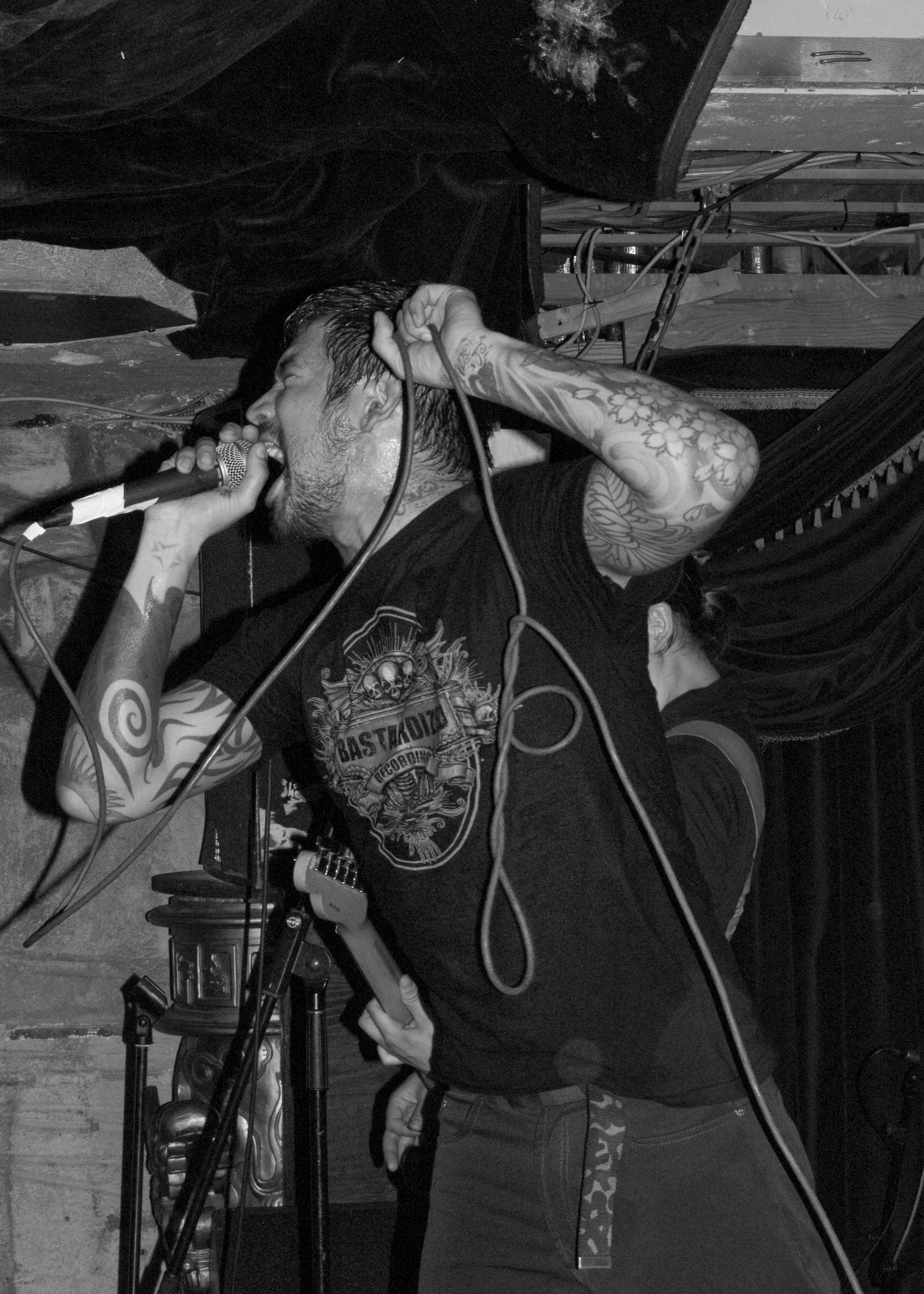 Bubonix vocalist, Thorsten Polomski, at a gig in Berlin, June 7, 2007